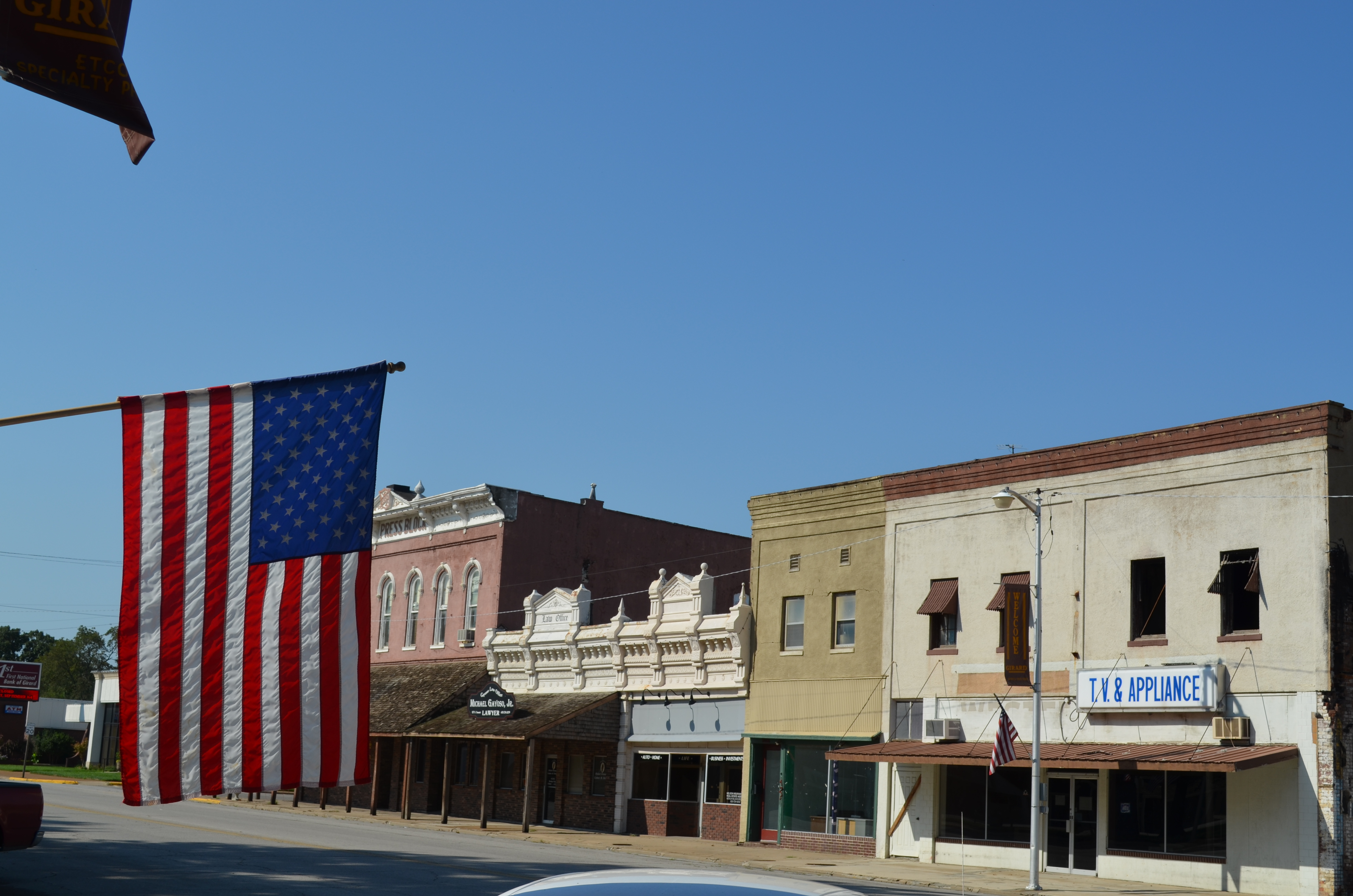 Stores on the town square of Girard, Kansas